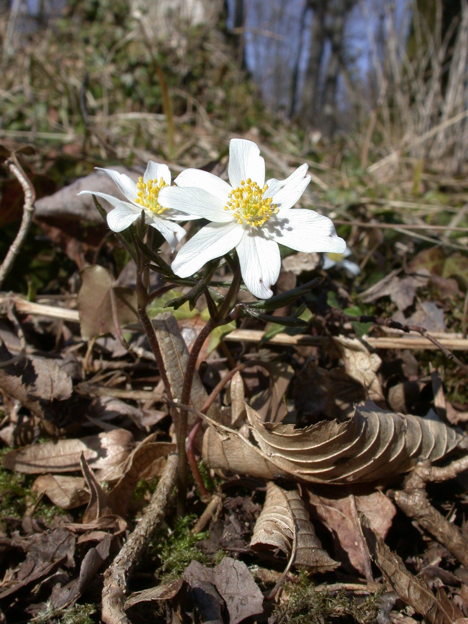 Anemone nemorosa in the forest of Pierrefitte-sur-Aire, Meuse, France.